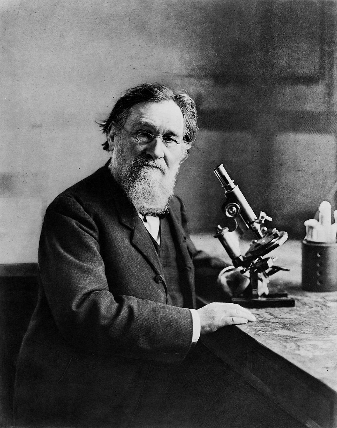 Portrait of E. Metchnikoff. Iconographic Collections Keywords: Elie Metchnikoff